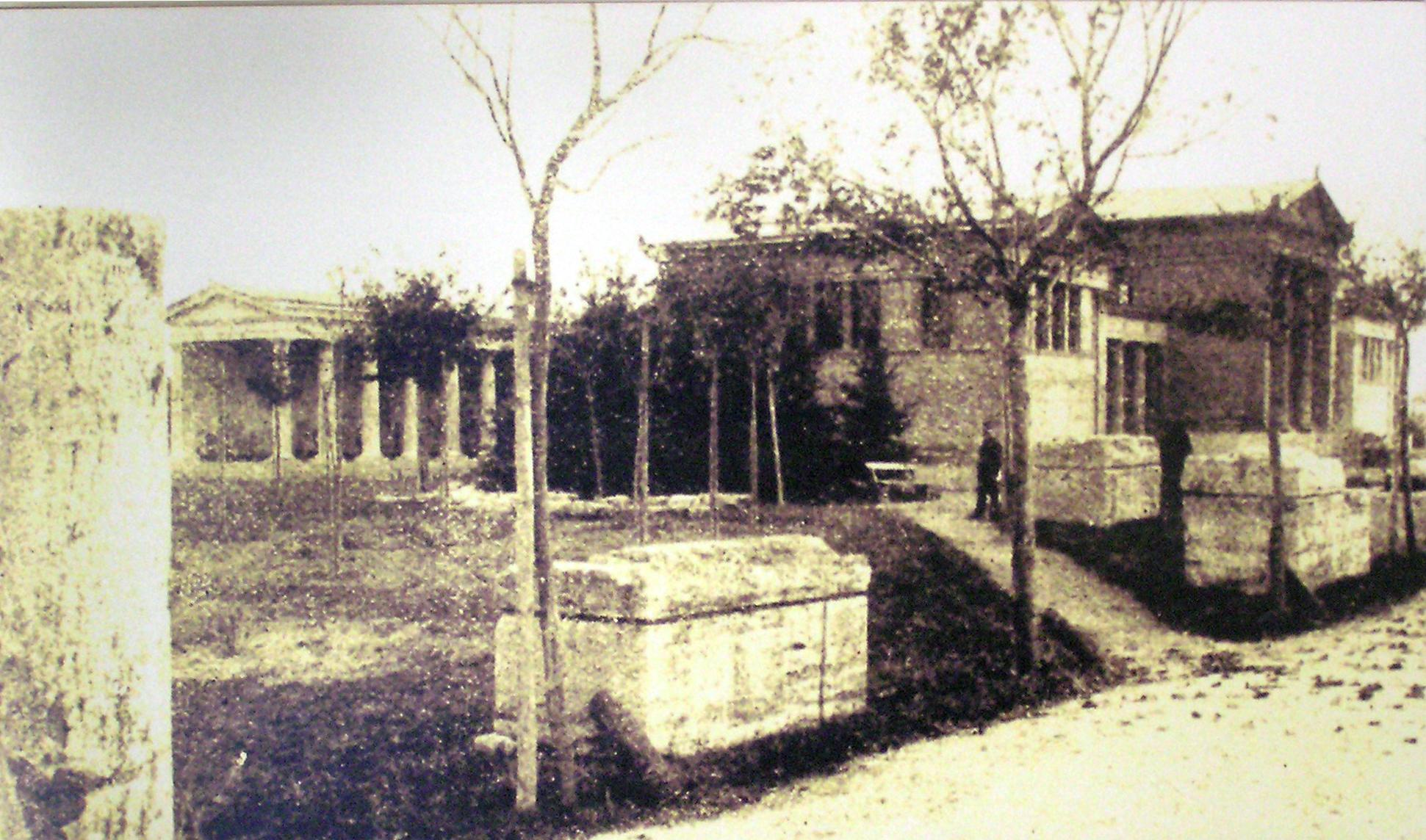 Antal WEINWURM's photo of the Aquincum Museum with the peristyle behind it (1904)